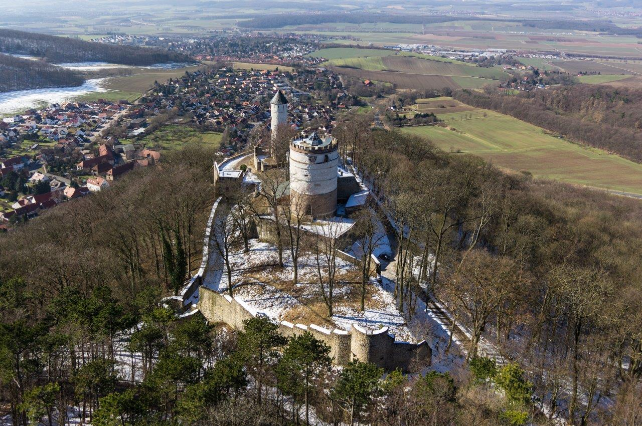 Foto: Michael Mehle mehle-hundertmark fotografie gbr